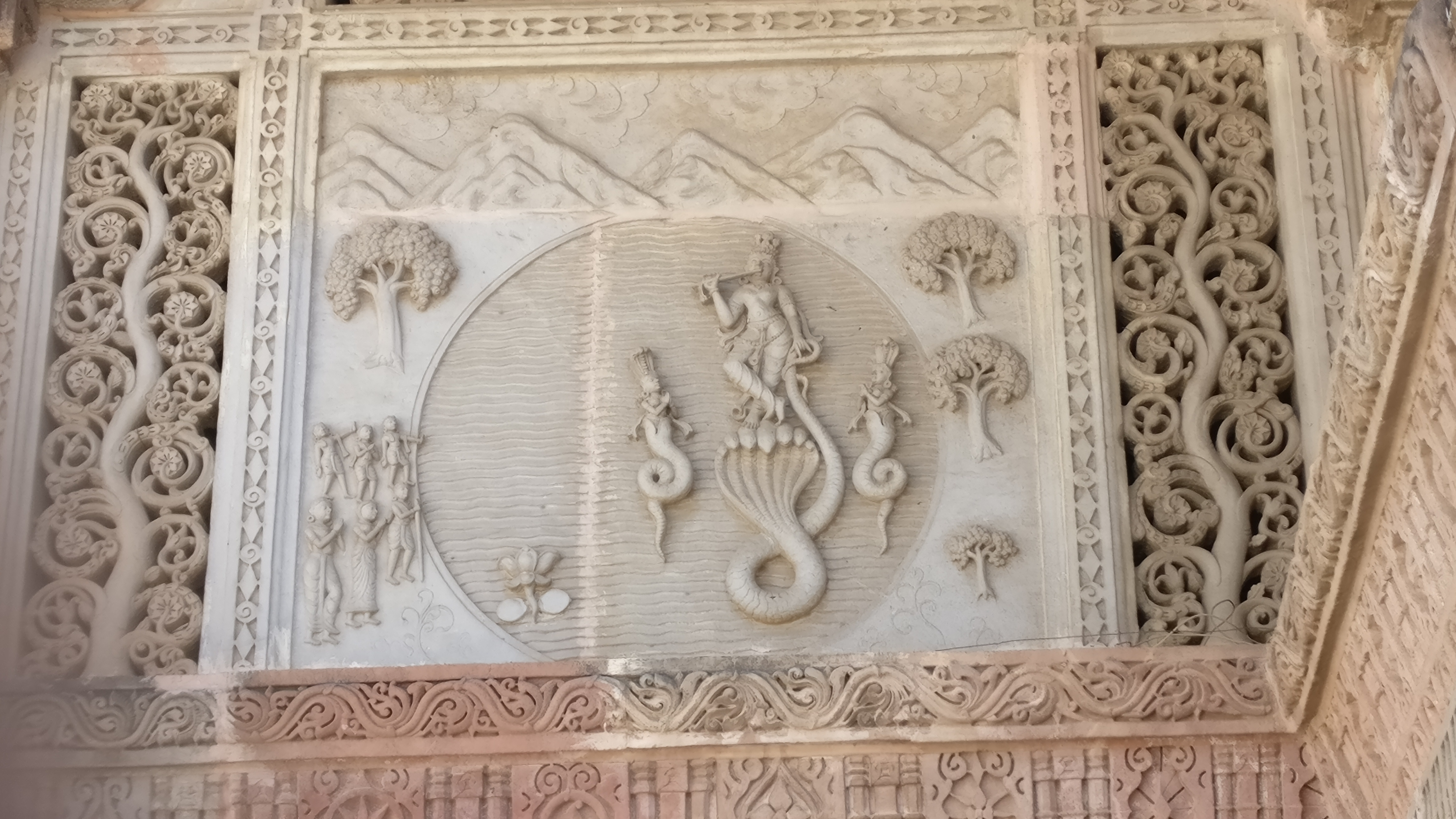 Shamlaji, also spelled Shamalaji, is a major Hindu pilgrimage centre in Aravalli district of Gujarat state of India. The Shamlaji temple is dedicated to Vishnu or Krishna. Several other Hindu temples are located nearby